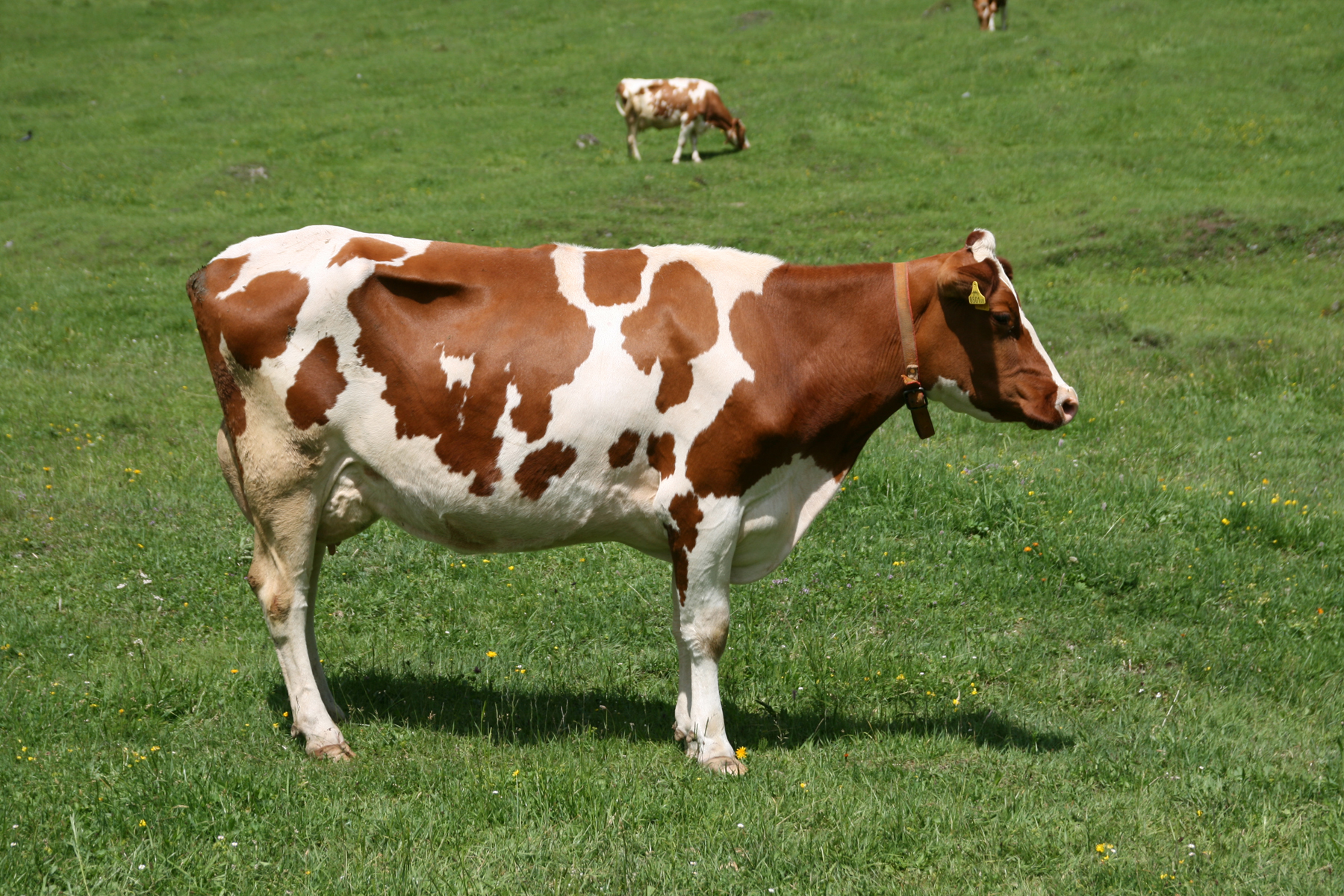 Description: Cattle, colloquially referred to as cows, are domesticated ungulates, a member of the subfamily Bovinae of the family Bovidae. As shown: Simmental (unsure breed identification: rather Red Holstein or a crossbreed individual, maybe Swiss Fleckvieh) is a brown-white cattle breed originating in the Simme valley in Switzerland